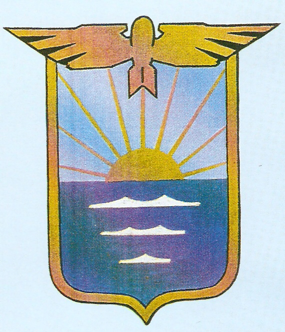 Scanned from Insignia and Decorations of the U.S. Armed Forces - revised edition December 1. 1944, pg. 183. Washington D.C.: National Geopgrahic Society